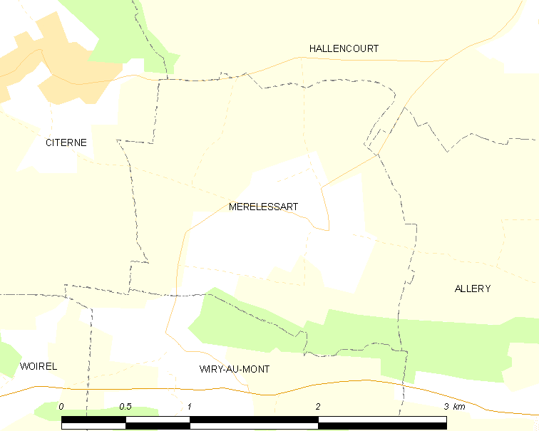 Map of French municipality Mérélessart